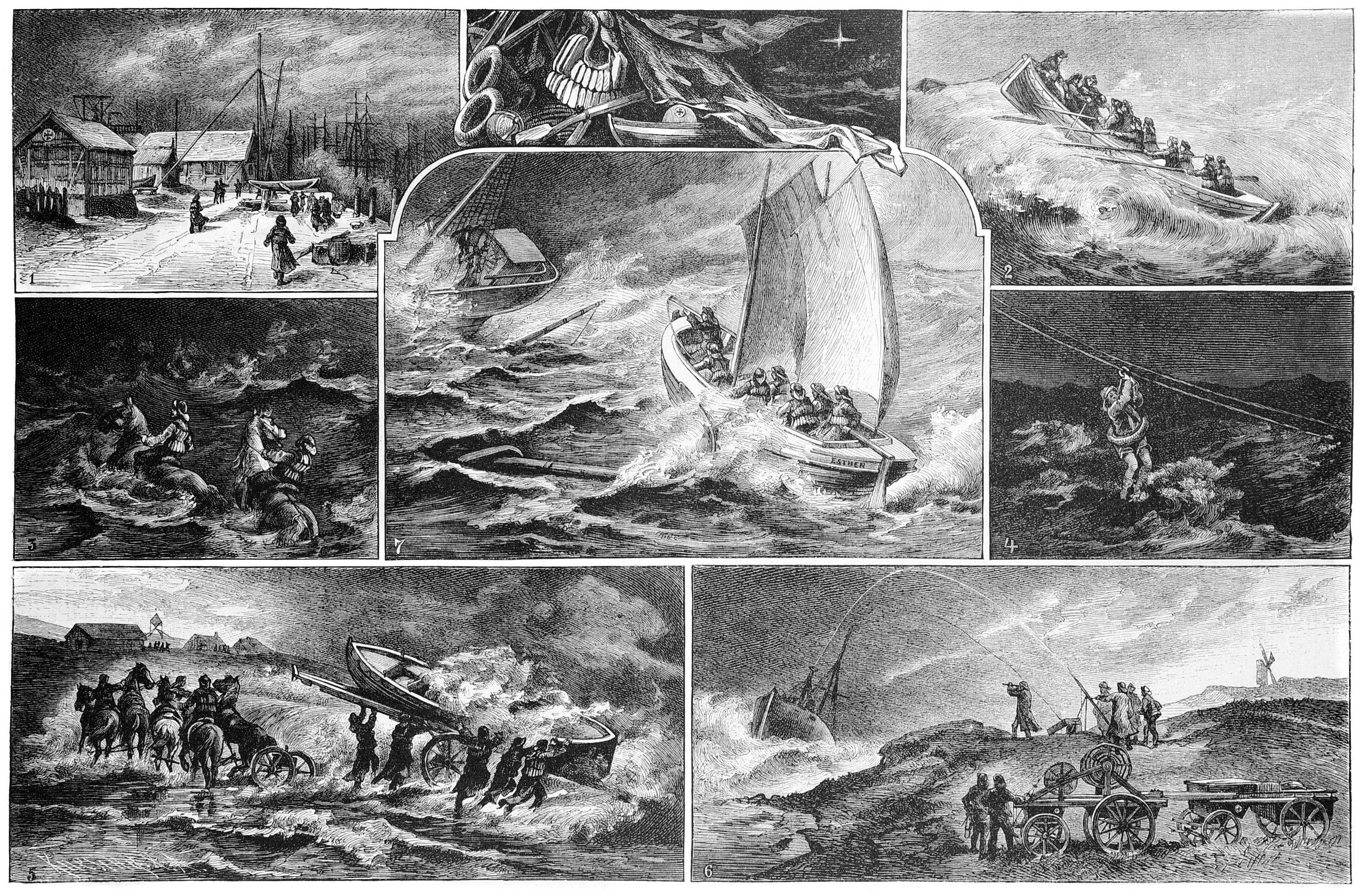 caption: "Bilder aus dem Wirken der deutschen Gesellschaft zur Rettung Schiffbrüchiger. Nach der Natur gezeichnet von F. Lindner. 1. Rettungsstation Cuxhaven. – 2. In der Brandung. – 3. Zuführung der Leine durch Reiter. – 4. Die Hosenboje. – 5. Das Abprotzen. – 6. Der Raketenschuß. – 7. Das Rettungsboot."